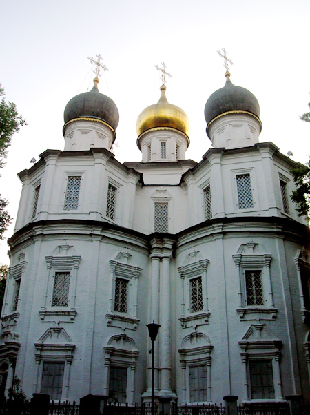 Church of Our Lady of Kazan in Uzkoe (1696-1702)